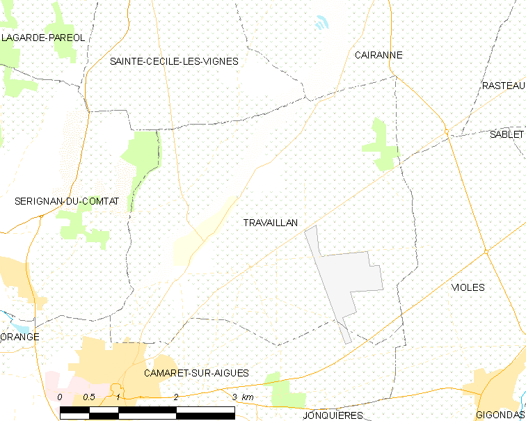 Map of French municipality Travaillan